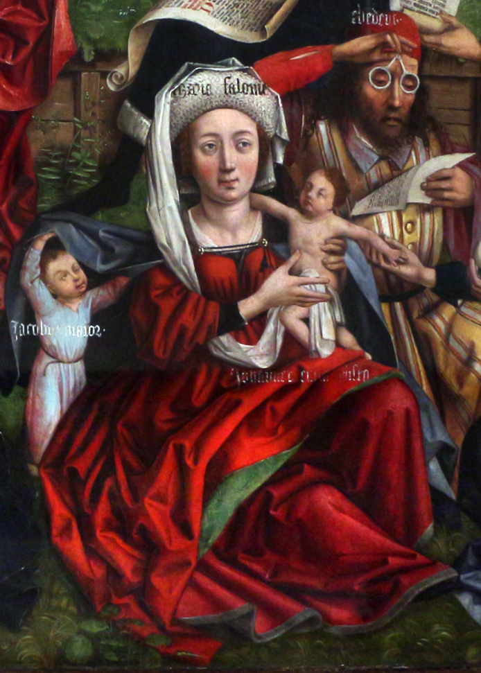 Collections of the Treasury of Sint-Servaasbasiliek. For provenance